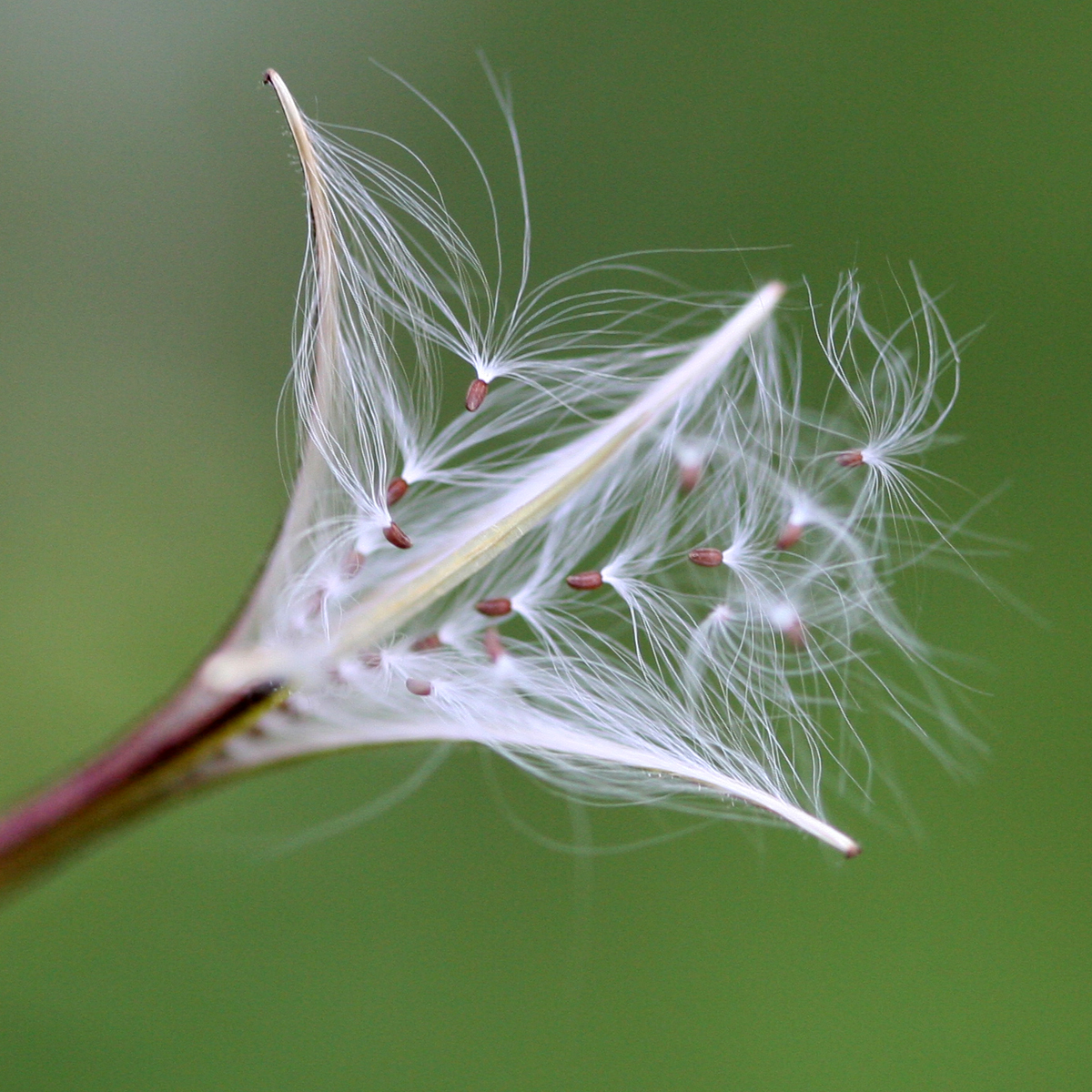 Epilobium ciliatum photographed in the town of Skaneateles NY